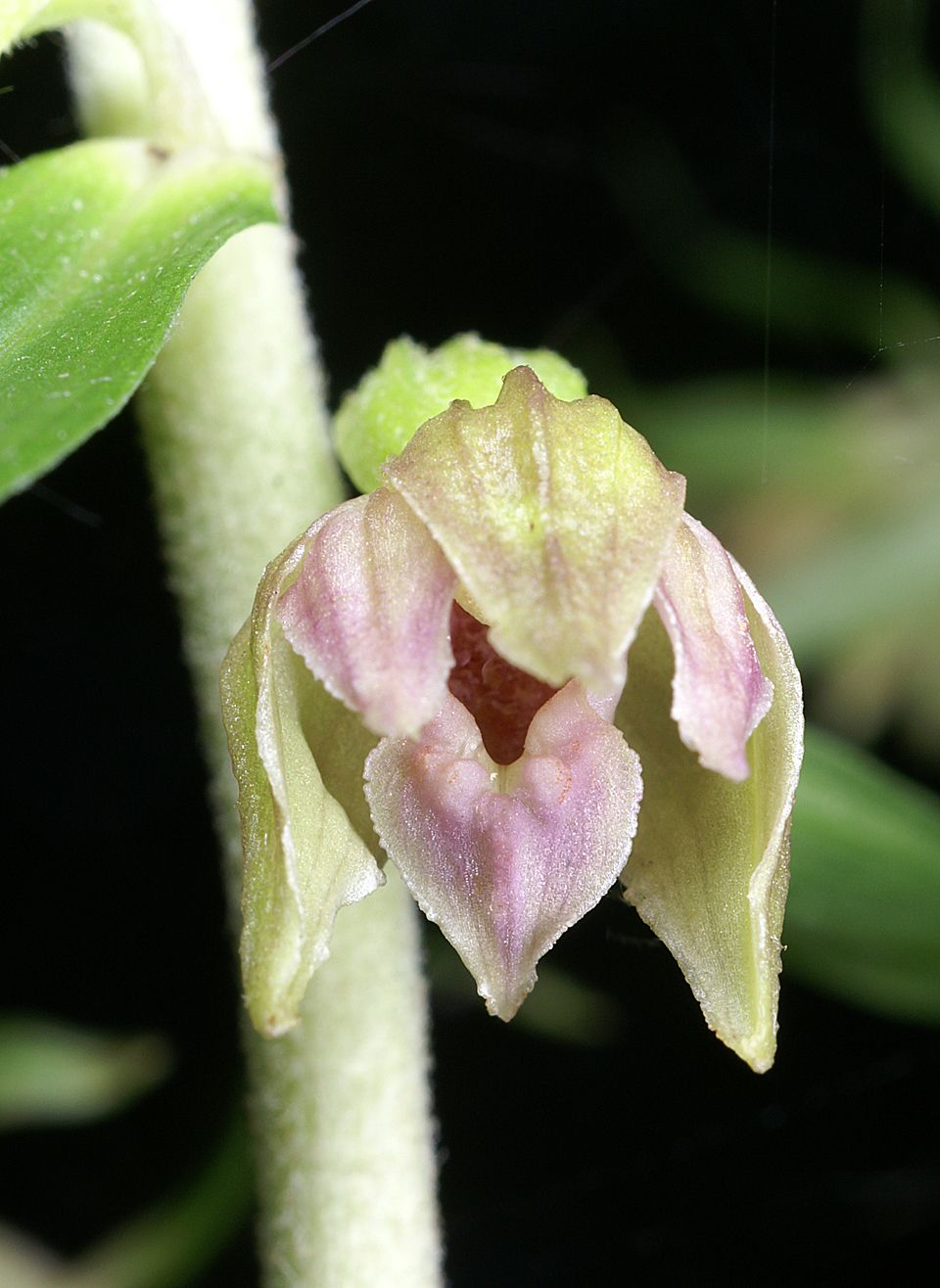 Epipactis leptochila - flower